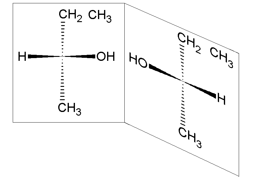 Buthanol enantiomers to explain RS Fsher 1